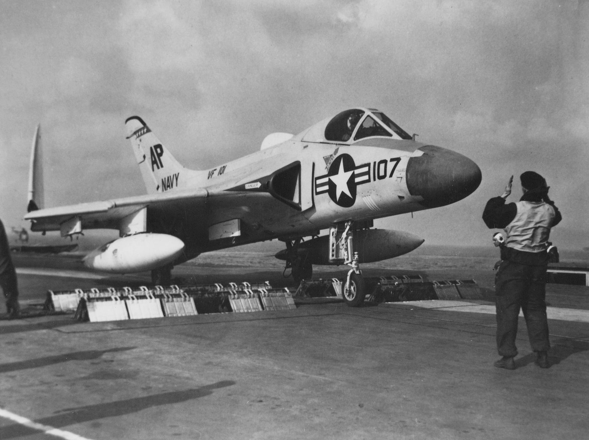 A U.S. Navy Douglas F4D-1 Skyray from Fighter Squadron 101 (VF-101) "Grim Reapers" aboard the Royal Navy aircraft carrier HMS Ark Royal (R09). VF-101 was assigned to Carrier Air Group 7 (CVG-7) aboard the aircraft carrier USS Saratoga (CVA-60) during the NATO exercise "Strikeback" in the North Atlantic from 3 September to 22 October 1957.